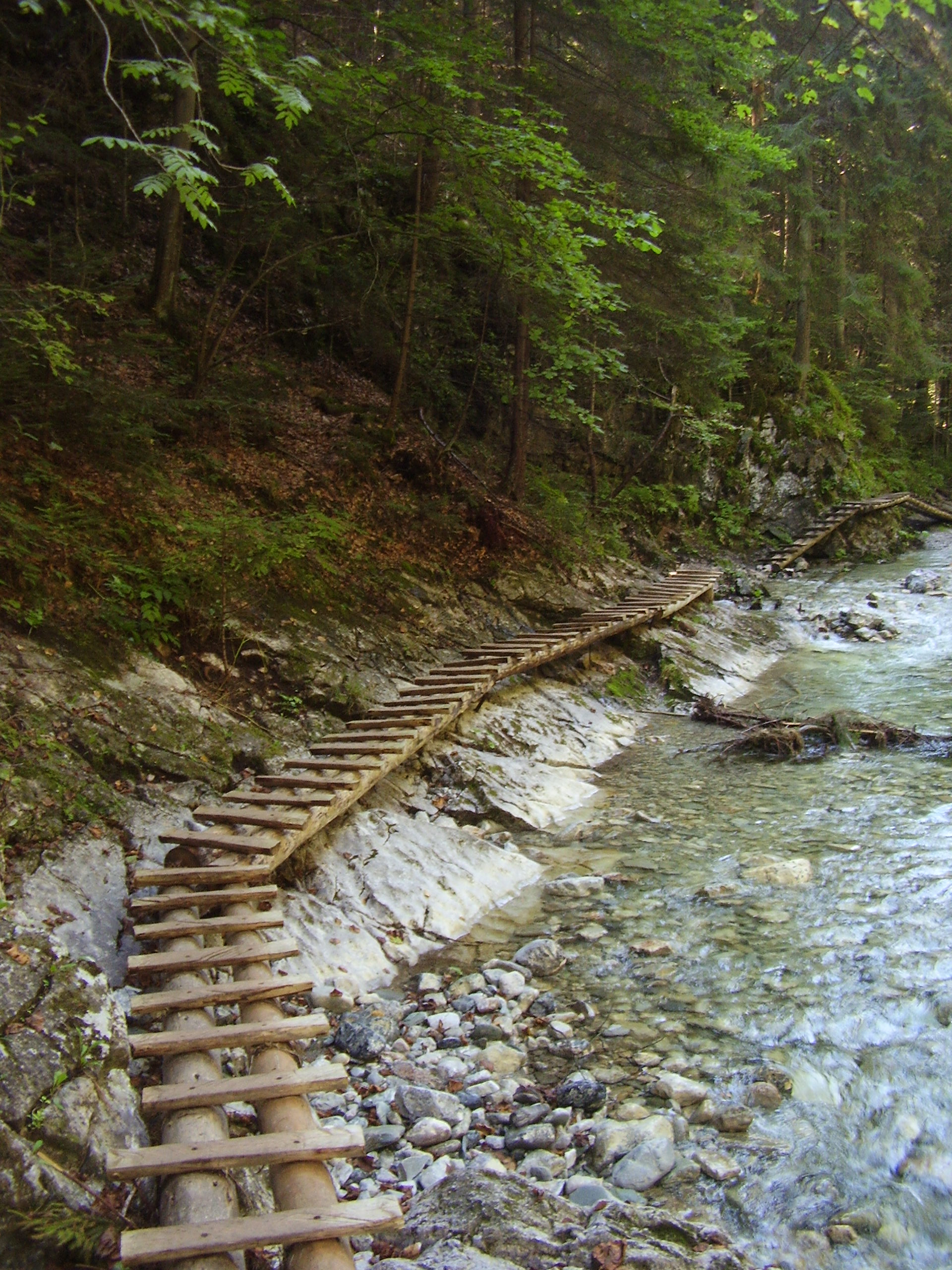 Hiking trail ladders in Tomášovská Belá canyon, Slovak Paradise National Park, Slovakia.